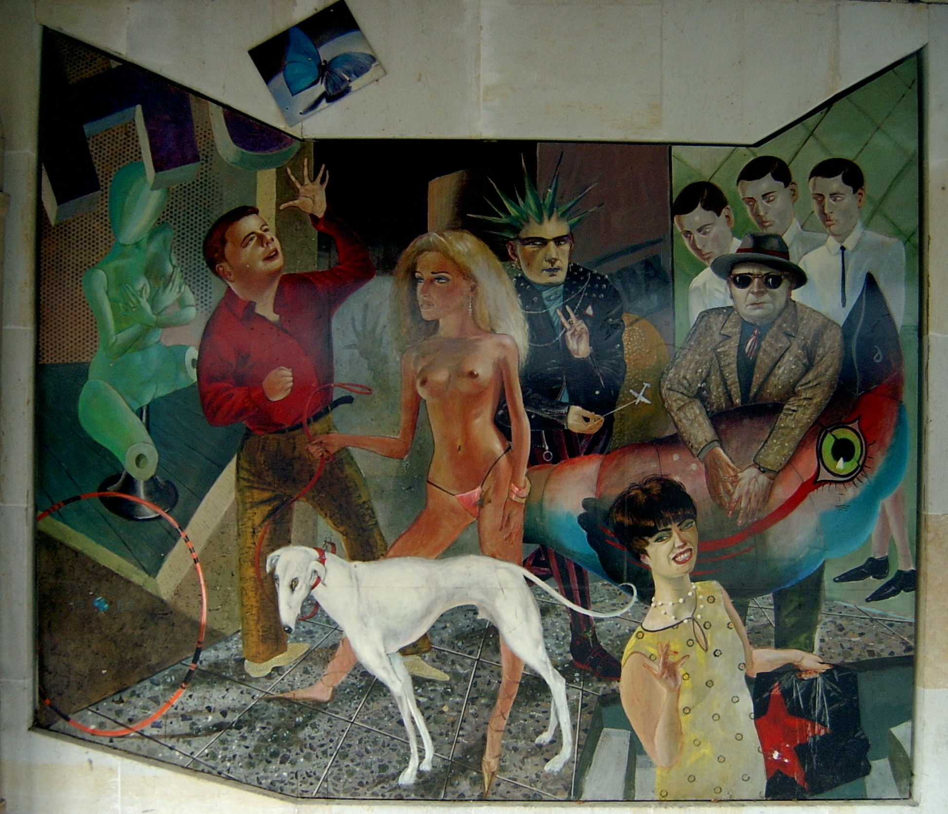 mural painting in Frankfurt (Oder)